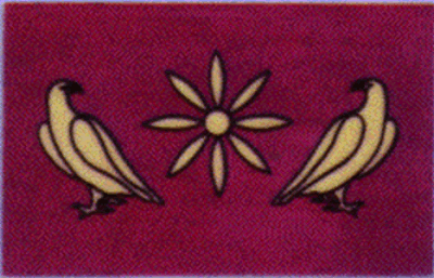 Standard of the Artaxiad Dynasty of Armenia.